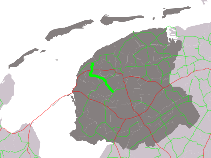 Map of Friesland with Dutch provincial road no. 384